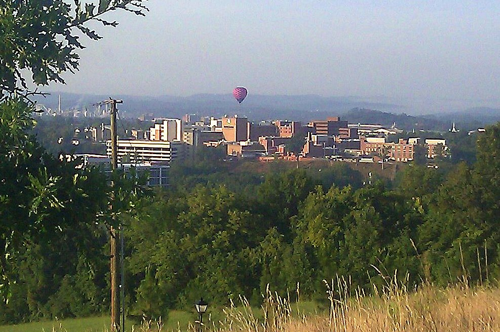 View of Kingsport, Tennessee from Kings View Apartments taken during Fun Fest 2010 Balloon Rally